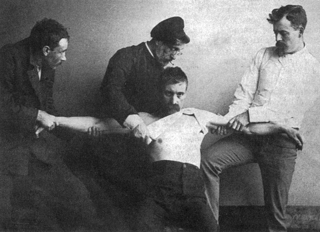 Hugh Owen Thomas (1834-1891), British orthopedic surgeon (center) and Robert Jones (right)